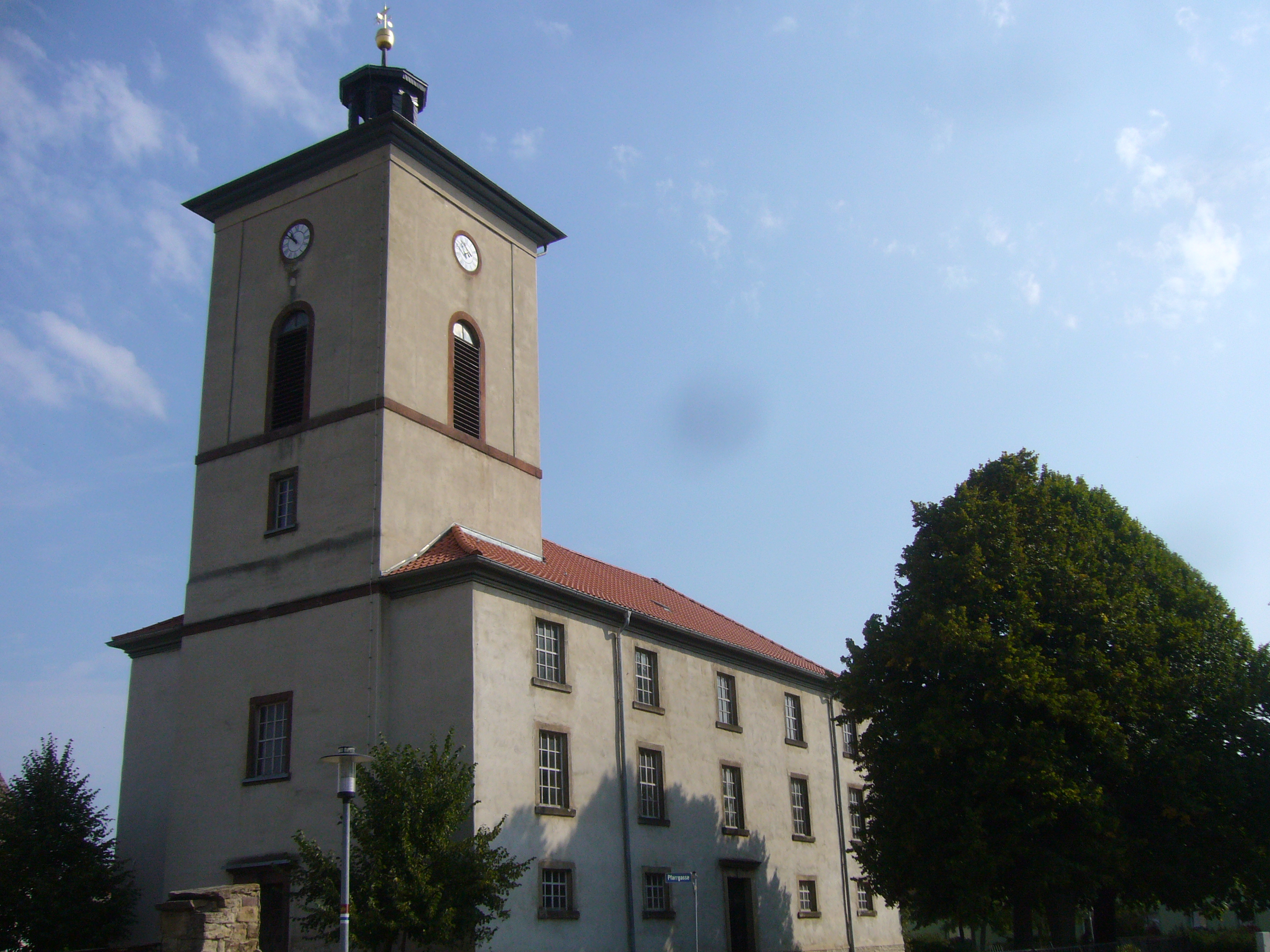 Church in Kalbsrieth, Kyffhäuserkreis, Thuringia, Germany